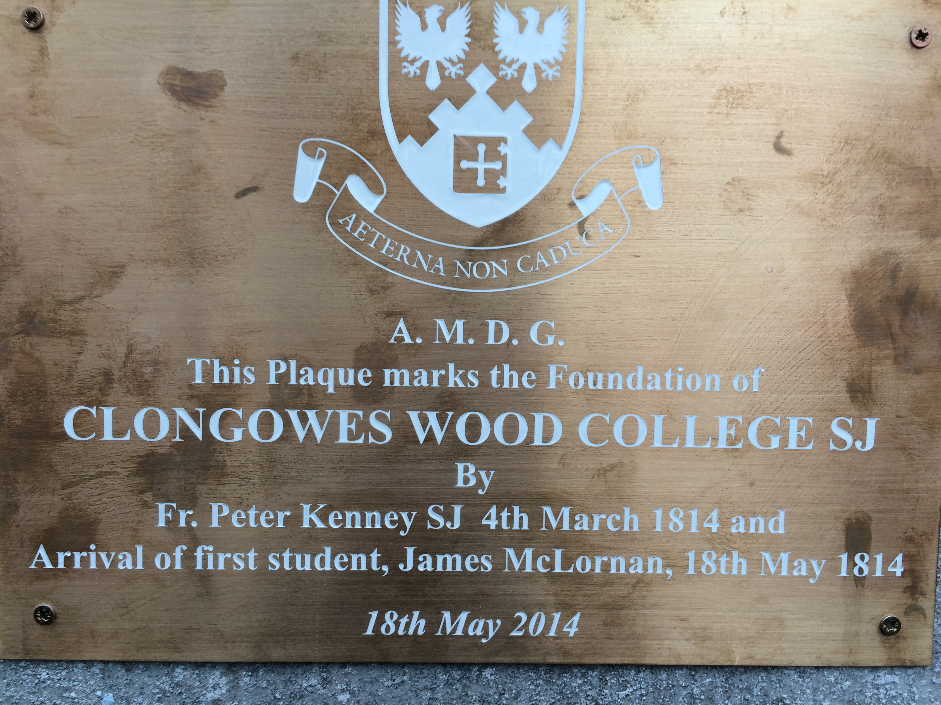 Plaque outside reception main entrance at Clongowes Wood College, commemorating its 1st pupil James McLornan on 18th May 1814